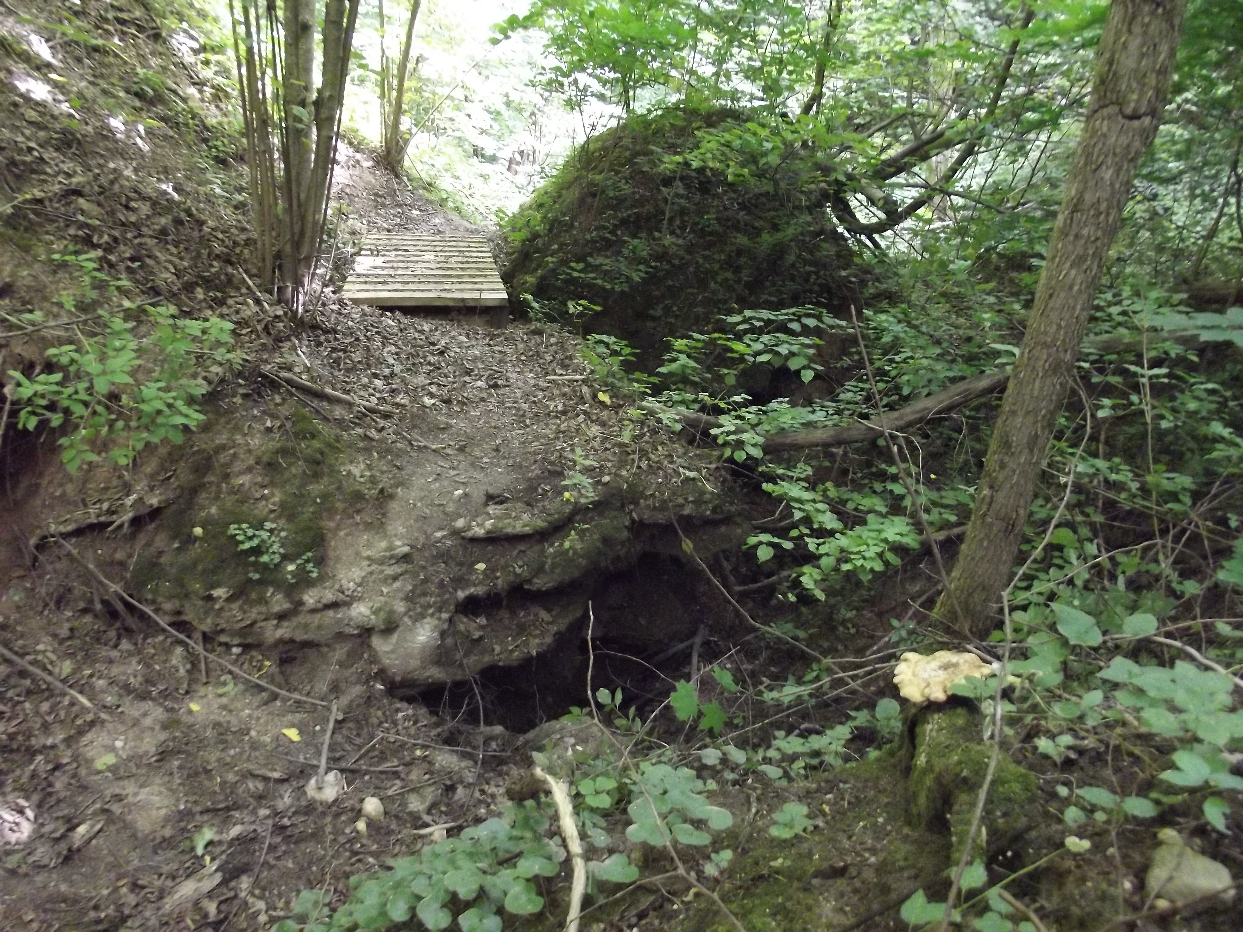 Exposure of conglomerates in Lašiniai, Kaišiadorys district, Lithuania